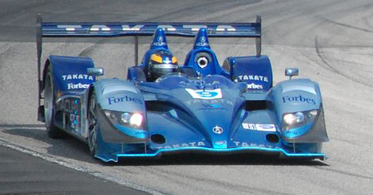 Highcroft Racing's Acura ARX-01a at the 2007 Generac 500